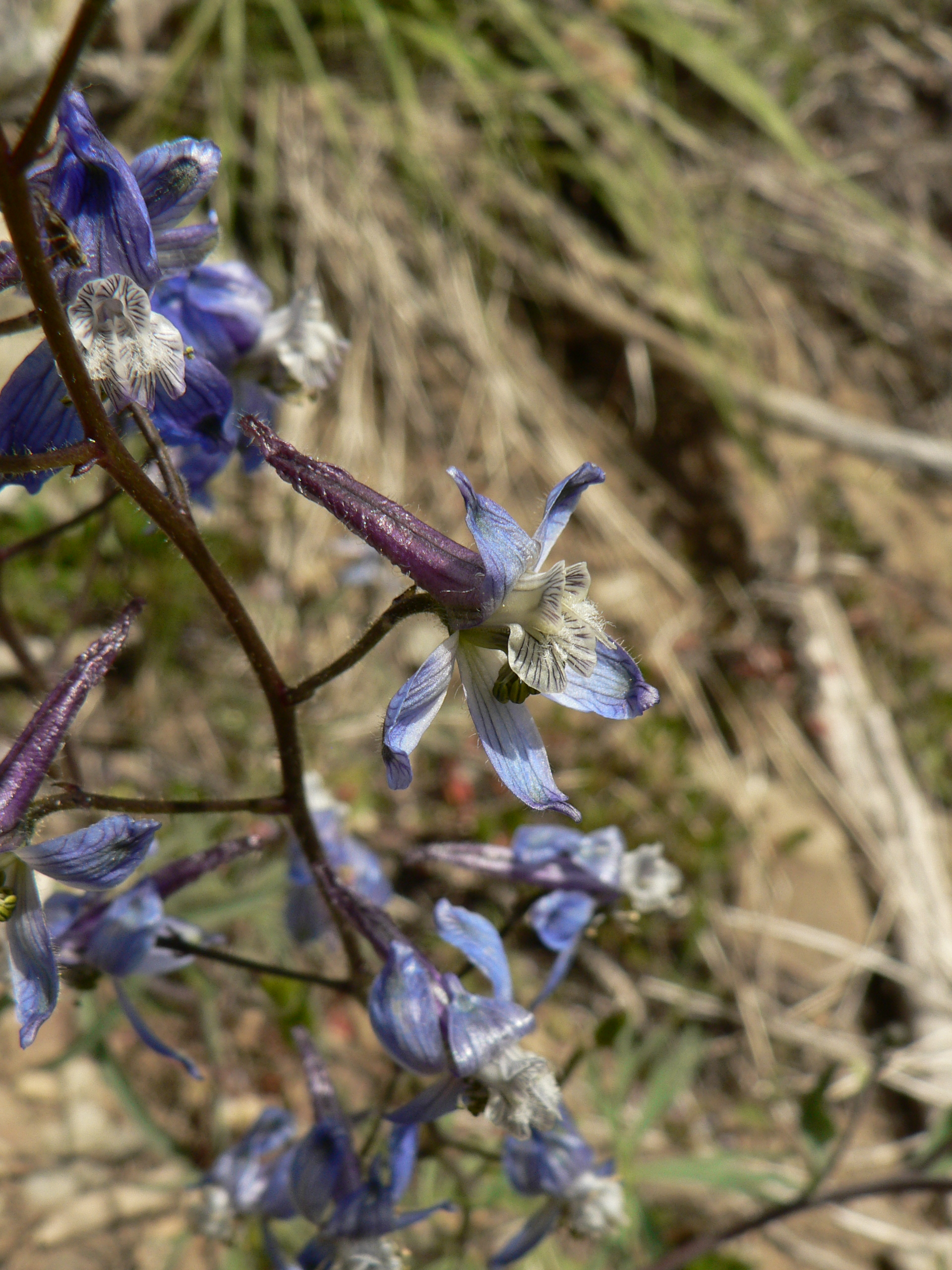 Two-lobe Larkspur, Upland Larkspur